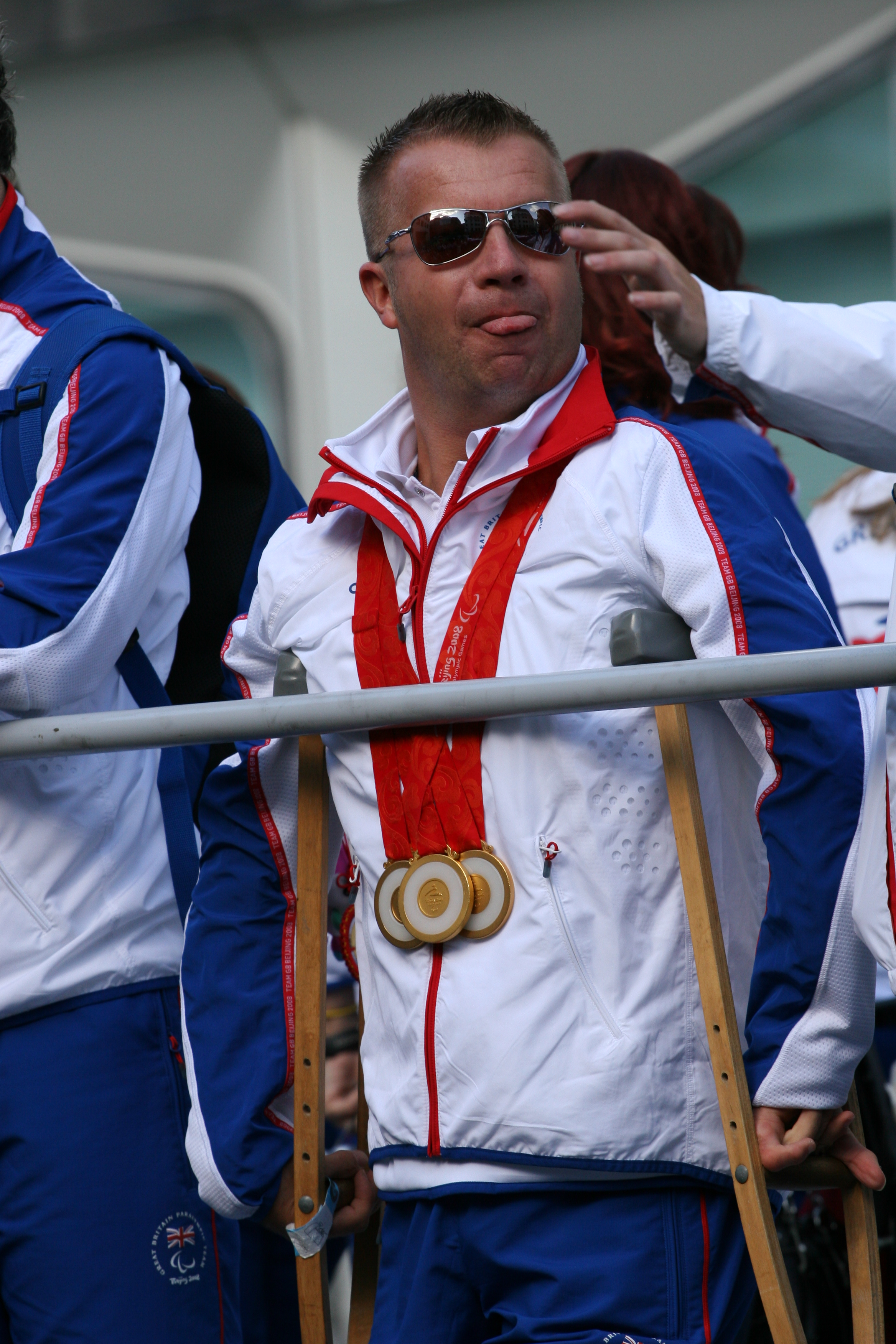 Lee Pearson, British Paralympic equestrian, at the parade in London to celebrate the achievements of British competitors at the 2008 Summer Olympic and Paralympic Games.